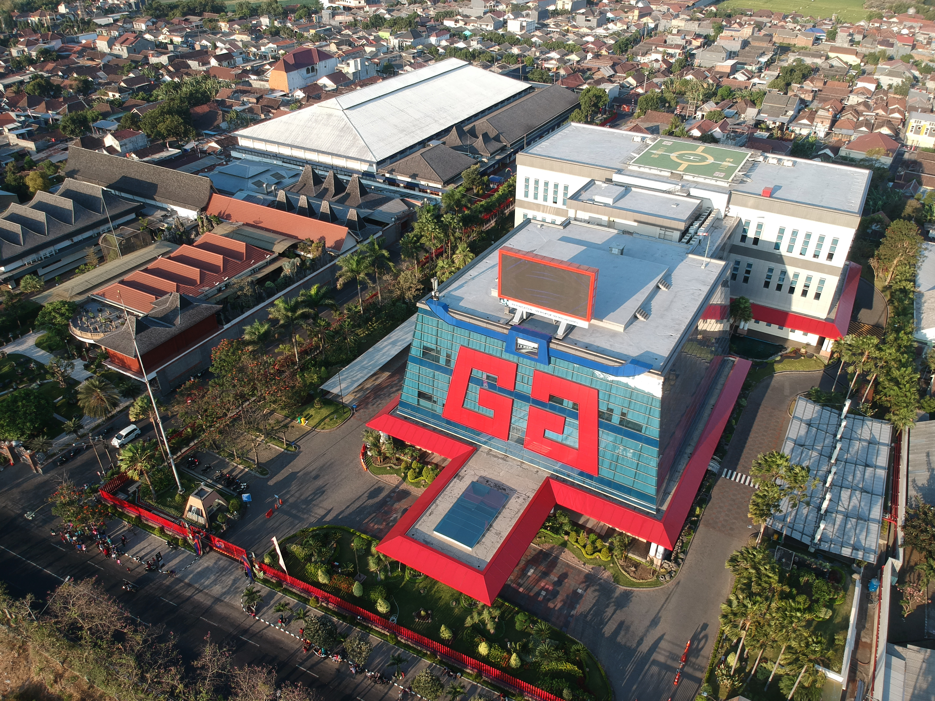 Aerial of Gudang Garam Headquarters in Kediri, photo by Koko Trisilo 2018-09-08